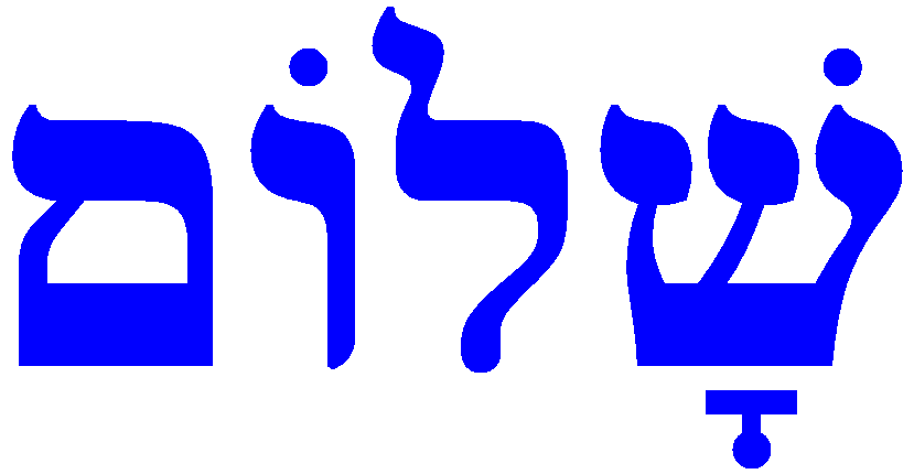 Shalom, a name of God (Hebrew characters). "Shalom" in Hebrew. Shalom.